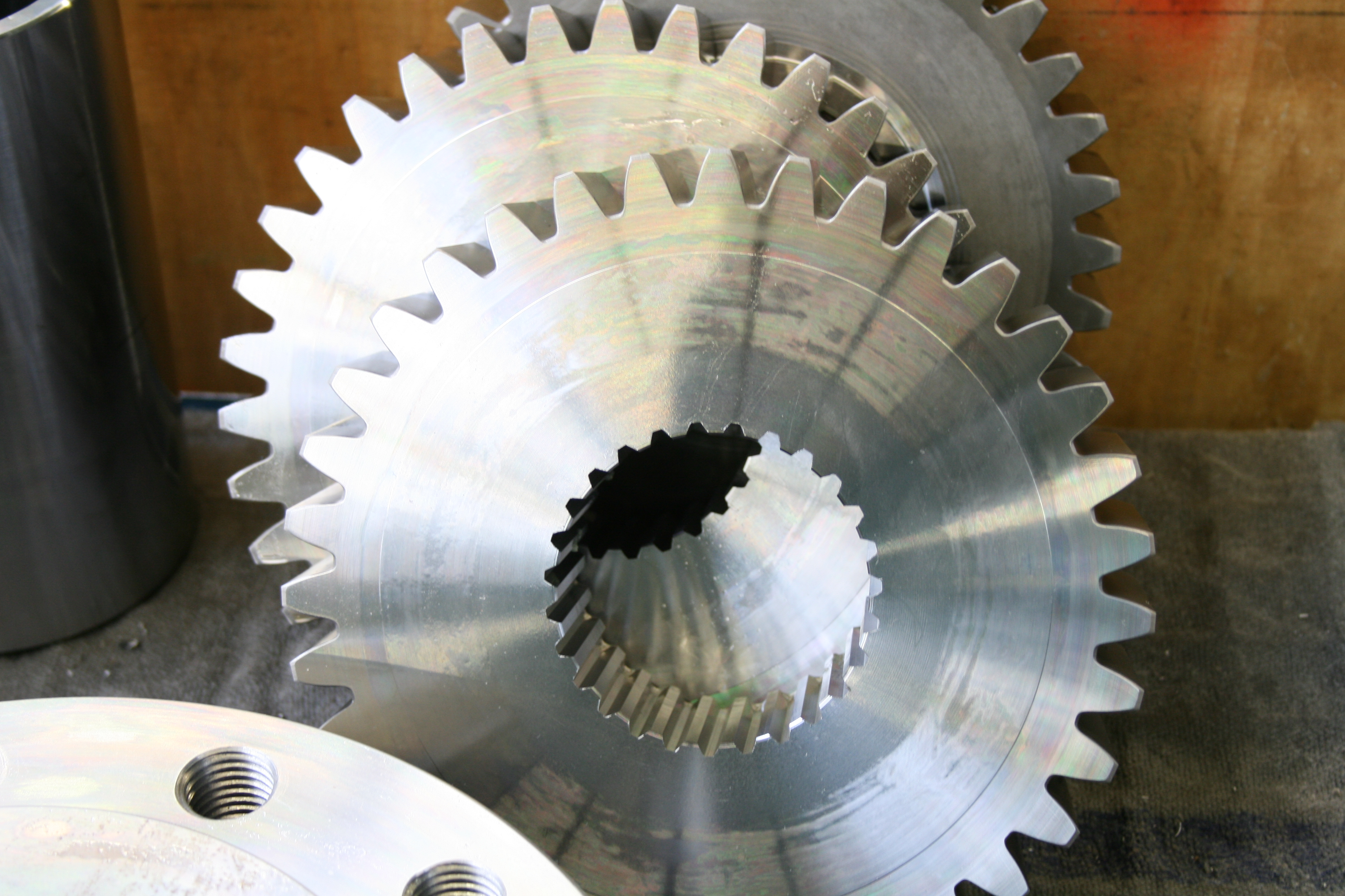 A spur gear with internal teeth